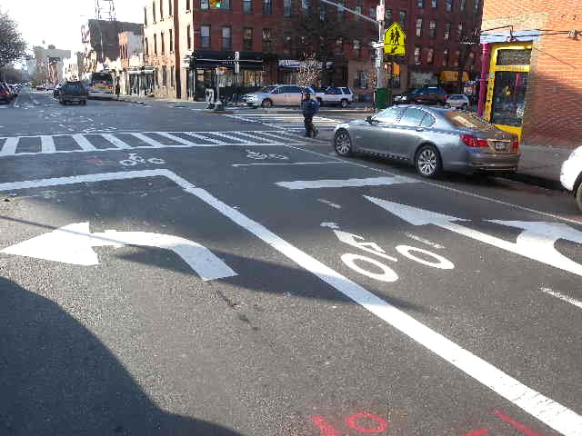 Looking northwest at Bergen Street showing Vanderbilt Avenue turns for motors and bikes and advanced bike stop position on a sunny afternoon.